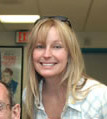 Bo Derek, American film actress and model visiting a VA hospital in Los Angeles, California